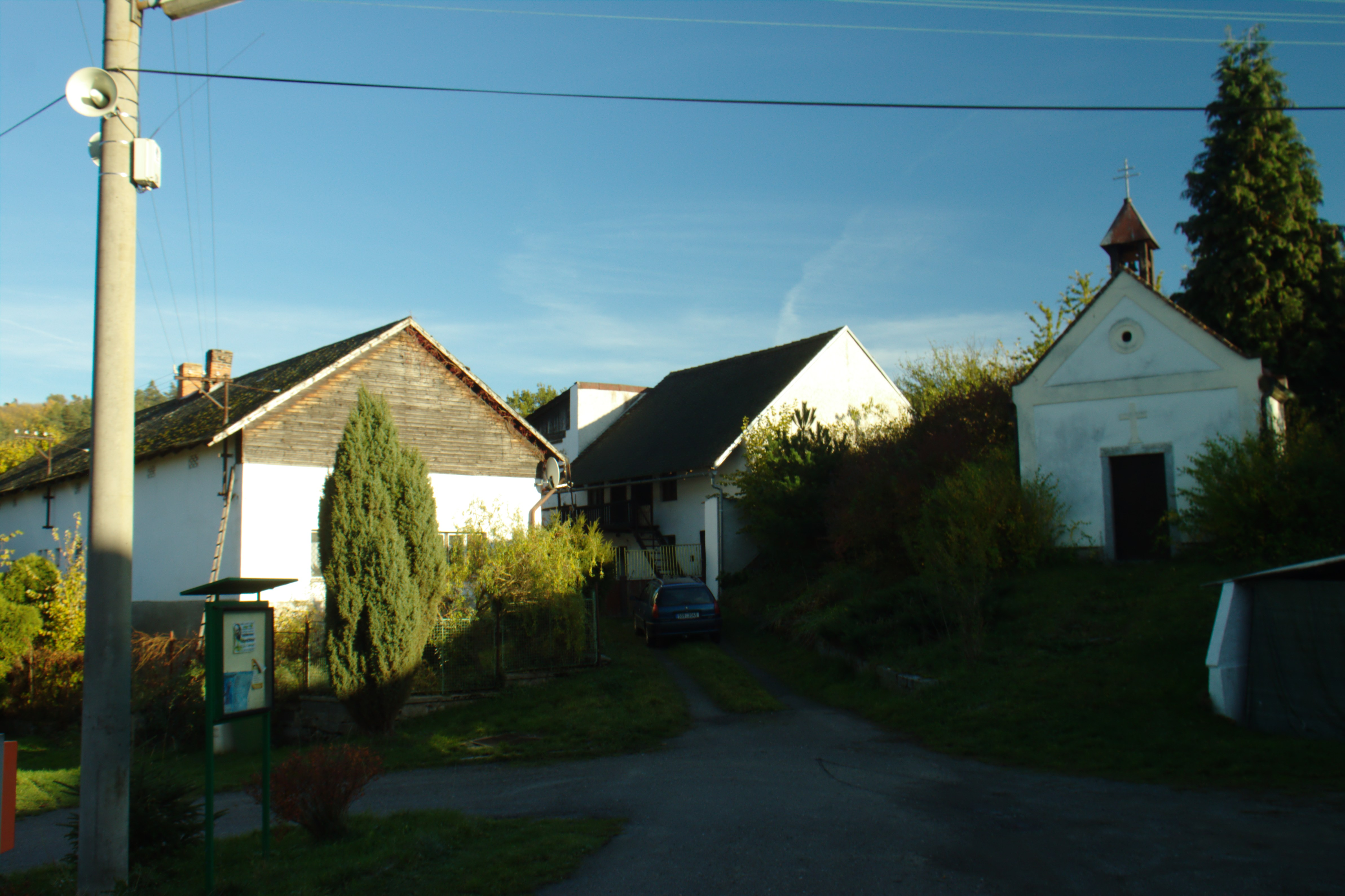 A common in the village of Lavičky, Central Bohemia, CZ